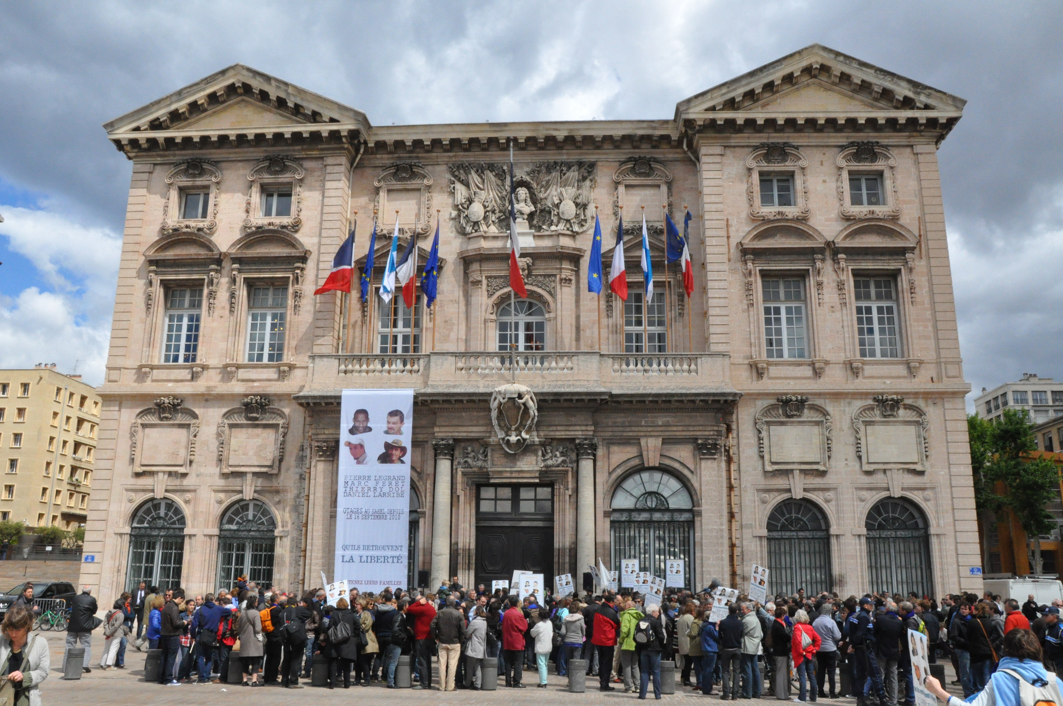 Marseille (France, Provence), protestation for hostages in Sahel before Town Hall